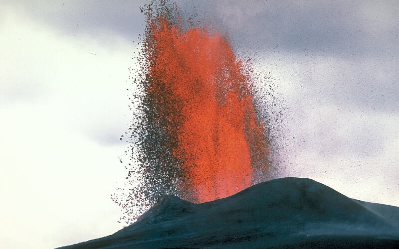 Lava fountain of the Pu`u `O`o cinder and spatter cone on Kilauea Volcano, Hawai`i